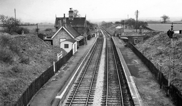 Berrington Station. Near to Cross Houses, Shropshire, Great Britain. View SE, towards Bridgnorth, Bewdley and Hartlebury; Shrewsbury - Hartlebury (Severn Valley) line. Station closed to passengers 9/9/63, goods 2/12/63; line closed to passengers 9/9/63, to goods Shrewsbury - Buildwas 2/12/63, but restored in stages south of Bridgnorth from 5/70 to Bewdley and Kidderminster by the Severn Valley Railway.